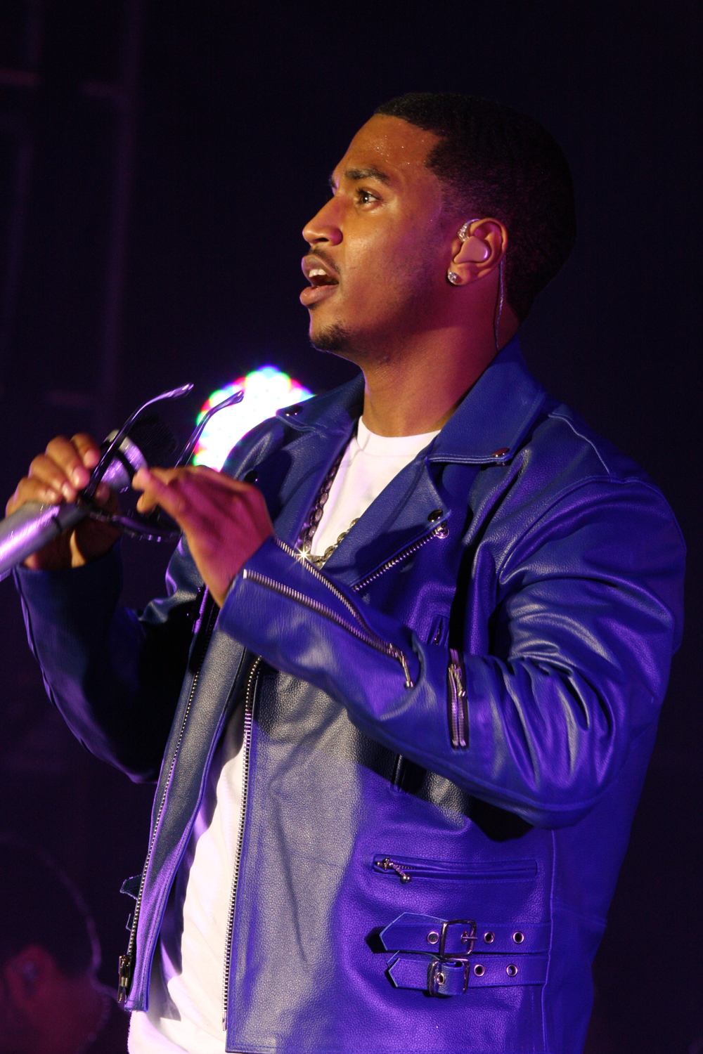 Trey Songz at Supafest 2012, at ANZ Stadium at Homebush, Sydney, Australia.